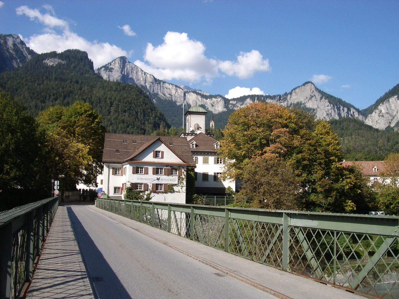 Reichenau GR, Switzerland self-made, September 2006